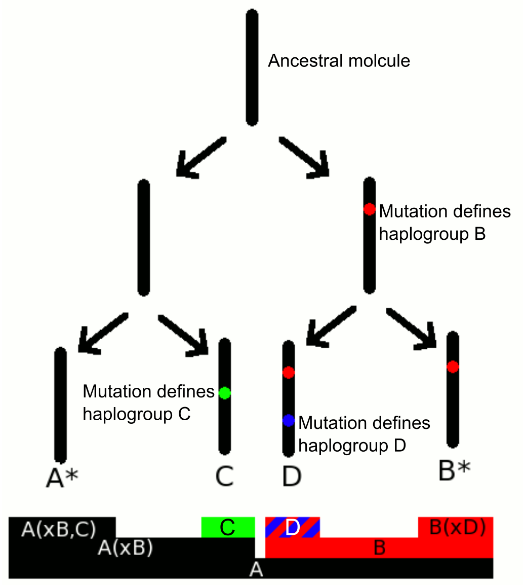 Illustration of how mutations define mt and Y chromosome haplogroups.